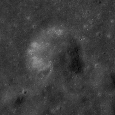 Sherlock crater, Taurus–Littrow valley, on the moon. Sun elevation 46 deg., spacecraft altitude 112 km.